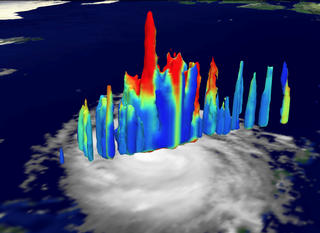 The cloud structure of Hurricane Bonnie, 1998